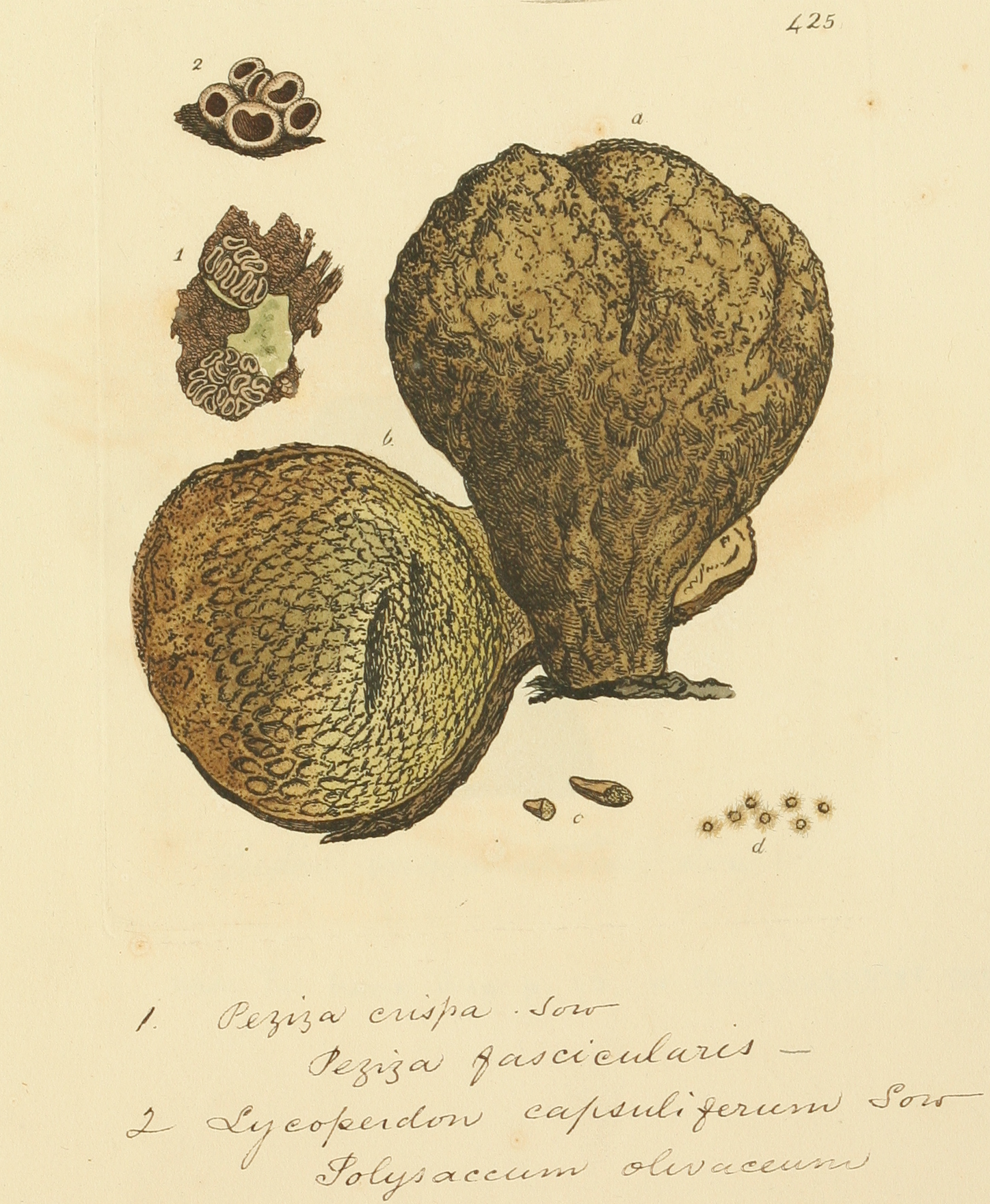 This is a plate from James Sowerby's Coloured Figures of English Fungi or Mushrooms.